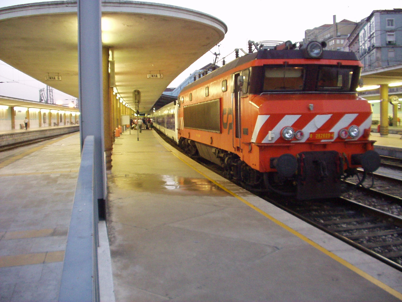 0-382609-4 at Santa Apolónia in Lisbon with Talgo Trenhotel Lisbon—Madrid